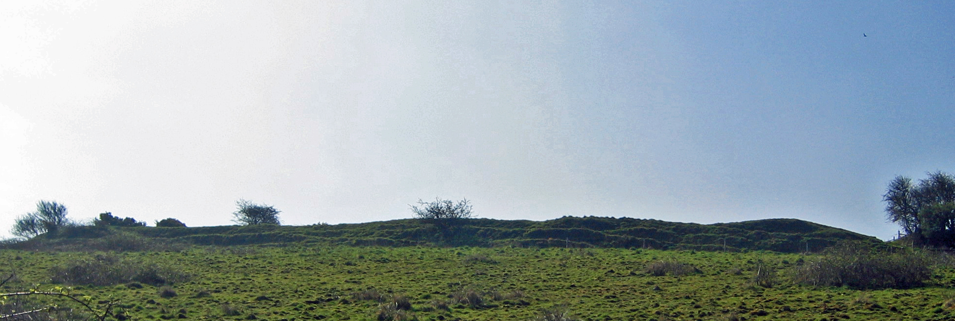 Atlas of Hillforts 3187 Photograph of the earthworks on the east side of Eddisbury hill fort